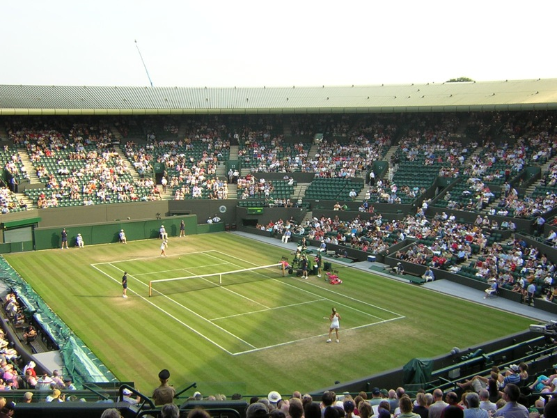 Amelie Mauresmo vs. Nicole Pratt on Court No.1 at Wimbledon